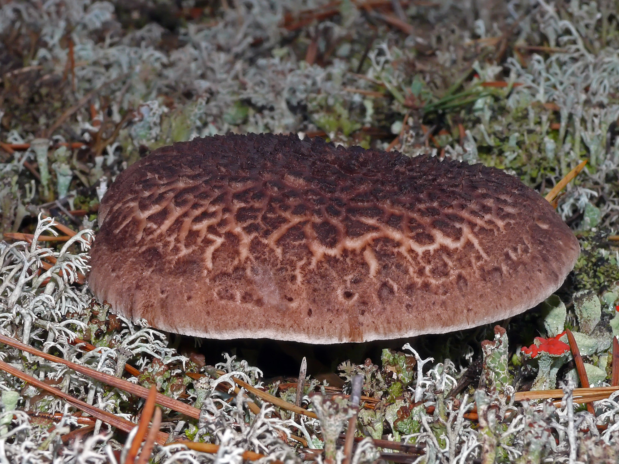 Sarcodon imbricatus. Found in surroundings of village Knistushki, Belarus.